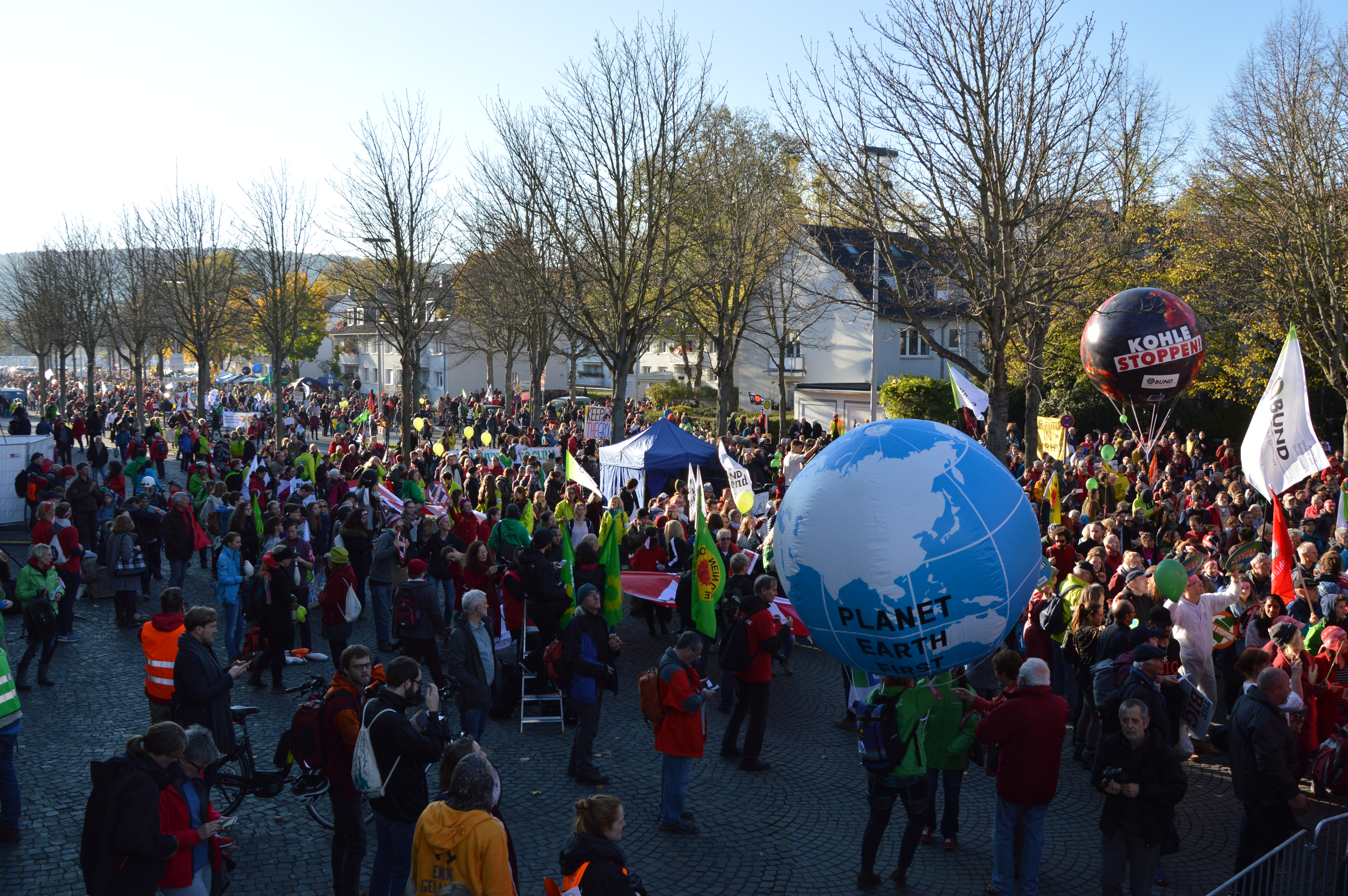 demo in Bonn at the beginning of COP 23, November 4, 2017. Photo taken in Bonn at Genscherallee.